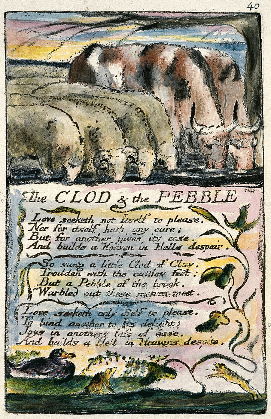 Songs of Innocence and of Experience, copy L, object 40 (Bentley 32, Erdman 32, Keynes 32) "The CLOD & the PEBBLE"